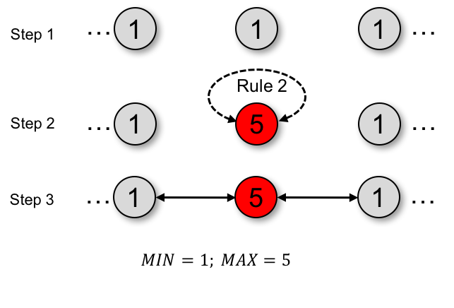 Illustration of KHOPCA rule 2.